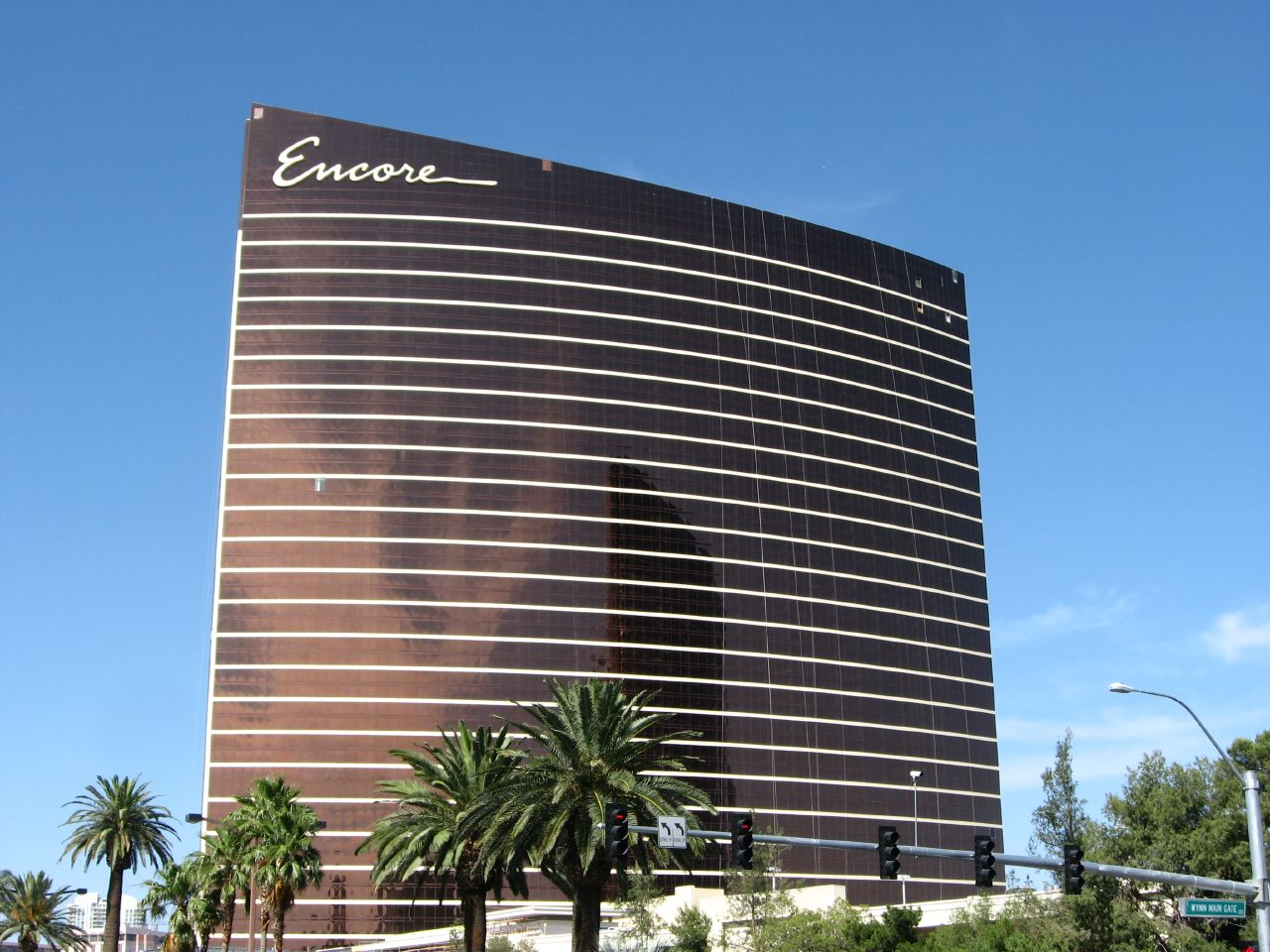 Encore Suits by Wynn, Las Vegas